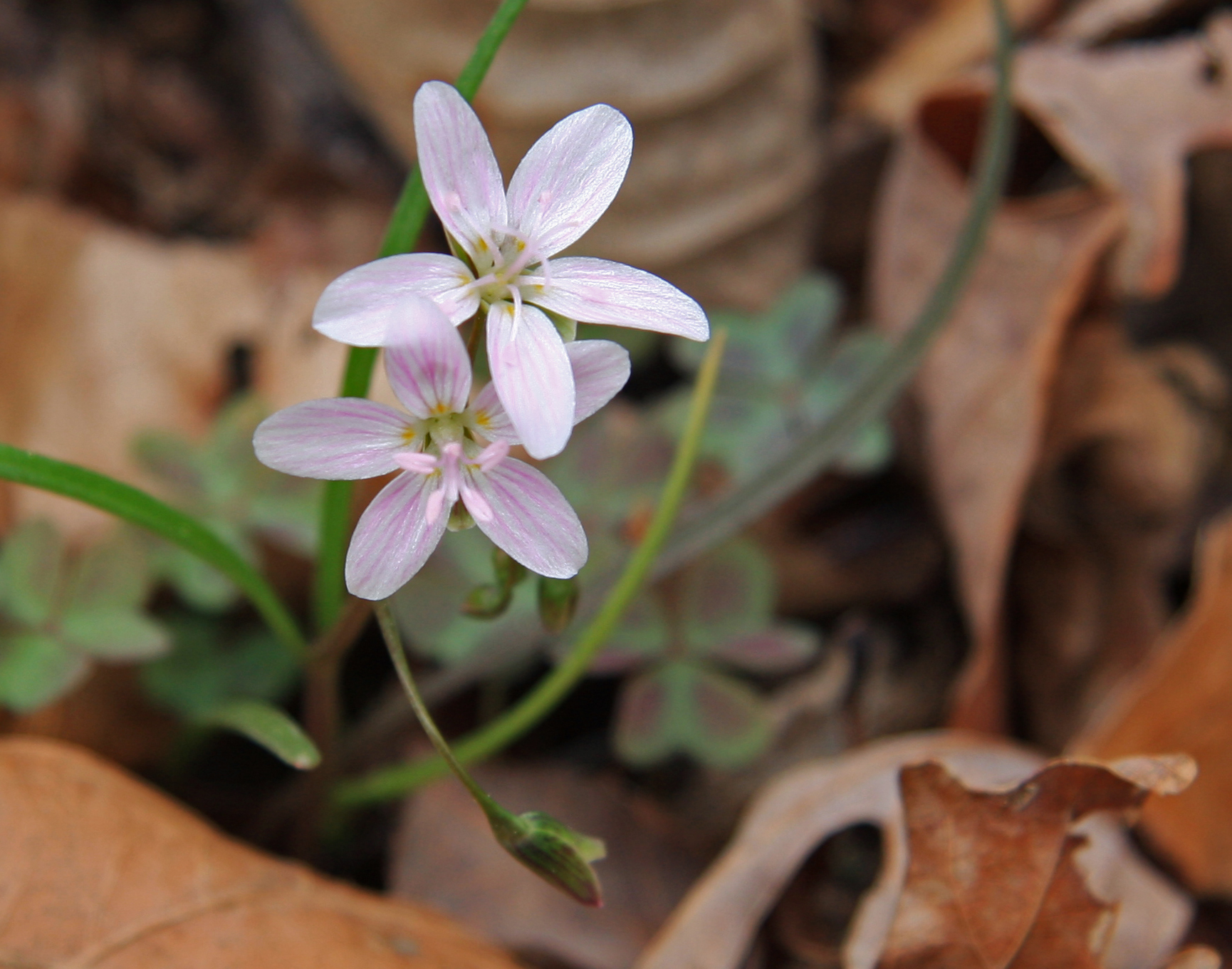 Spring beauty (Claytonia virginica), closeup of two flowers showing pink-veined petals and 5 stamens. Duke Forest Korstian Division, Durham, North Carolina, USA.